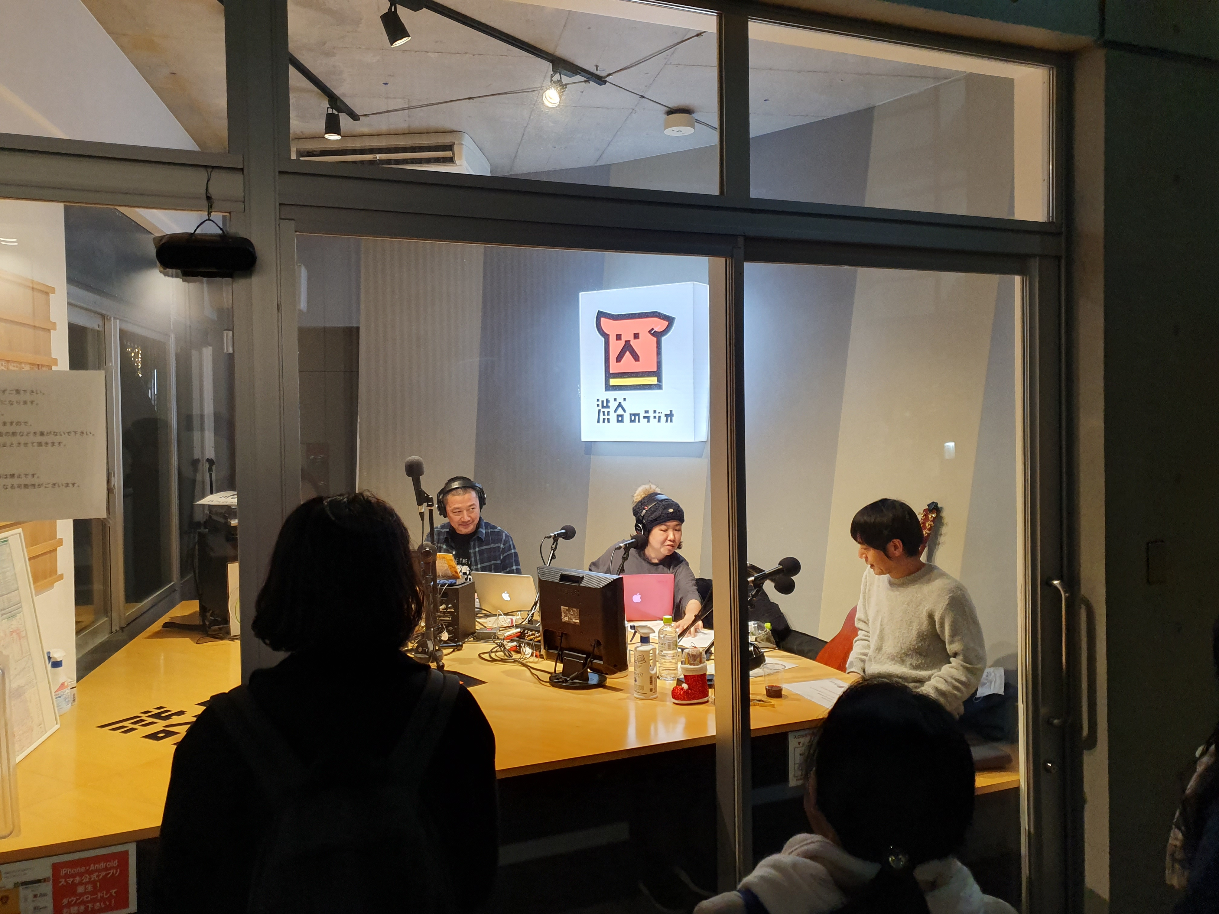 Studio recording scene of Shibuya no Radio